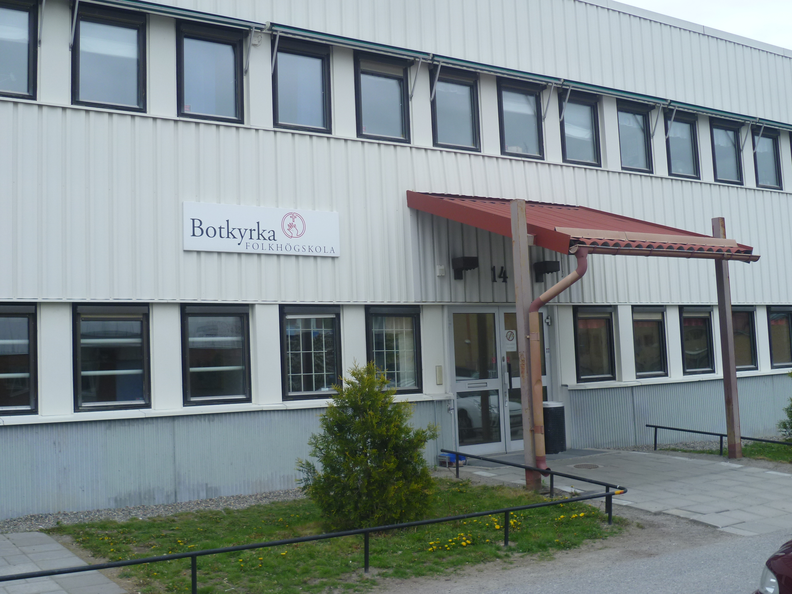 Entrance to Botkyrka folkhögskola